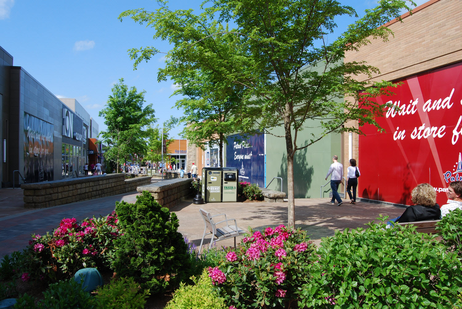 Patriot Place shopping center. Foxborough, Massachusetts. June 2009